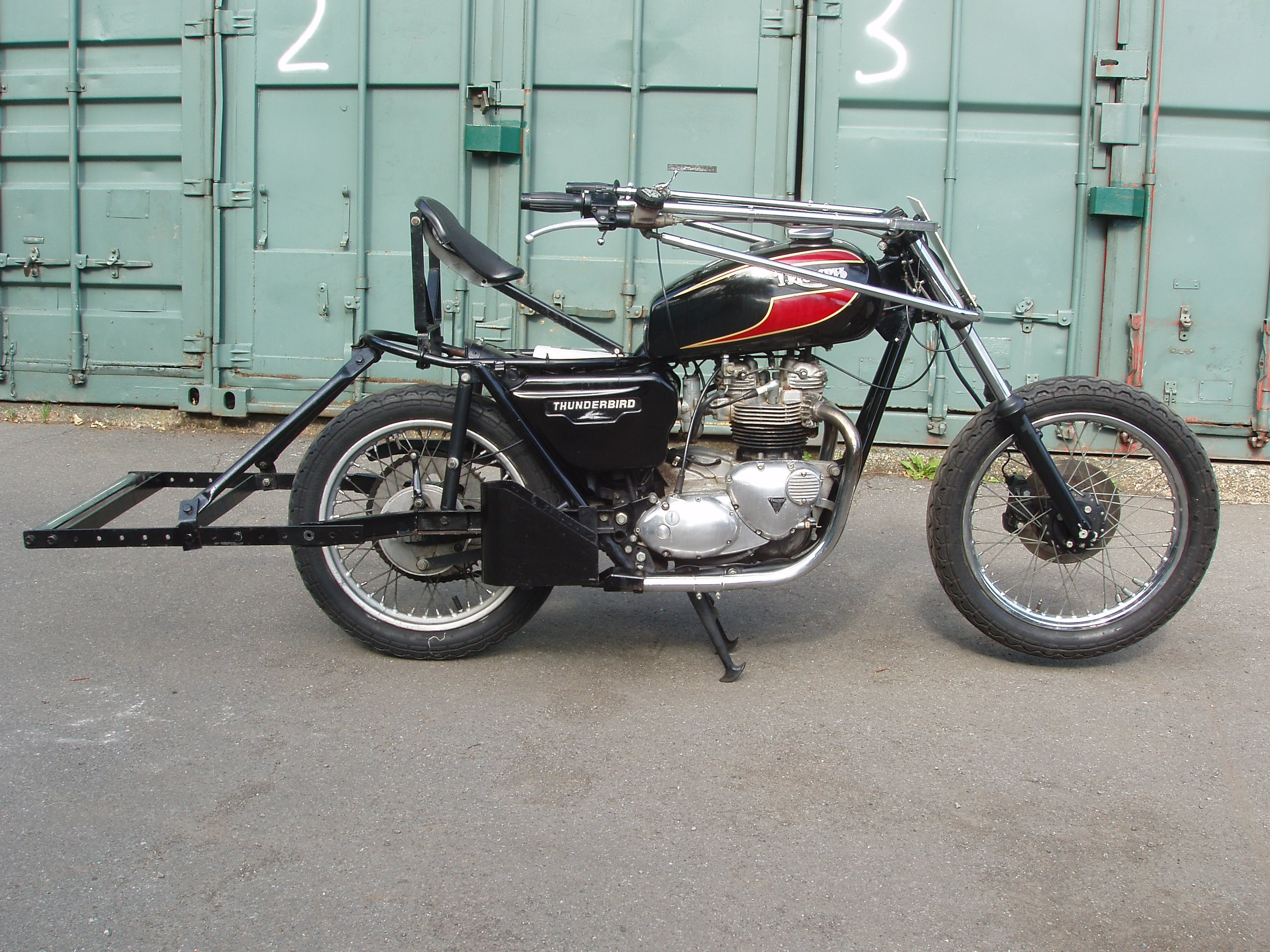 Ten of these first used at Leicester Velodrome and now permanently at Herne Hill